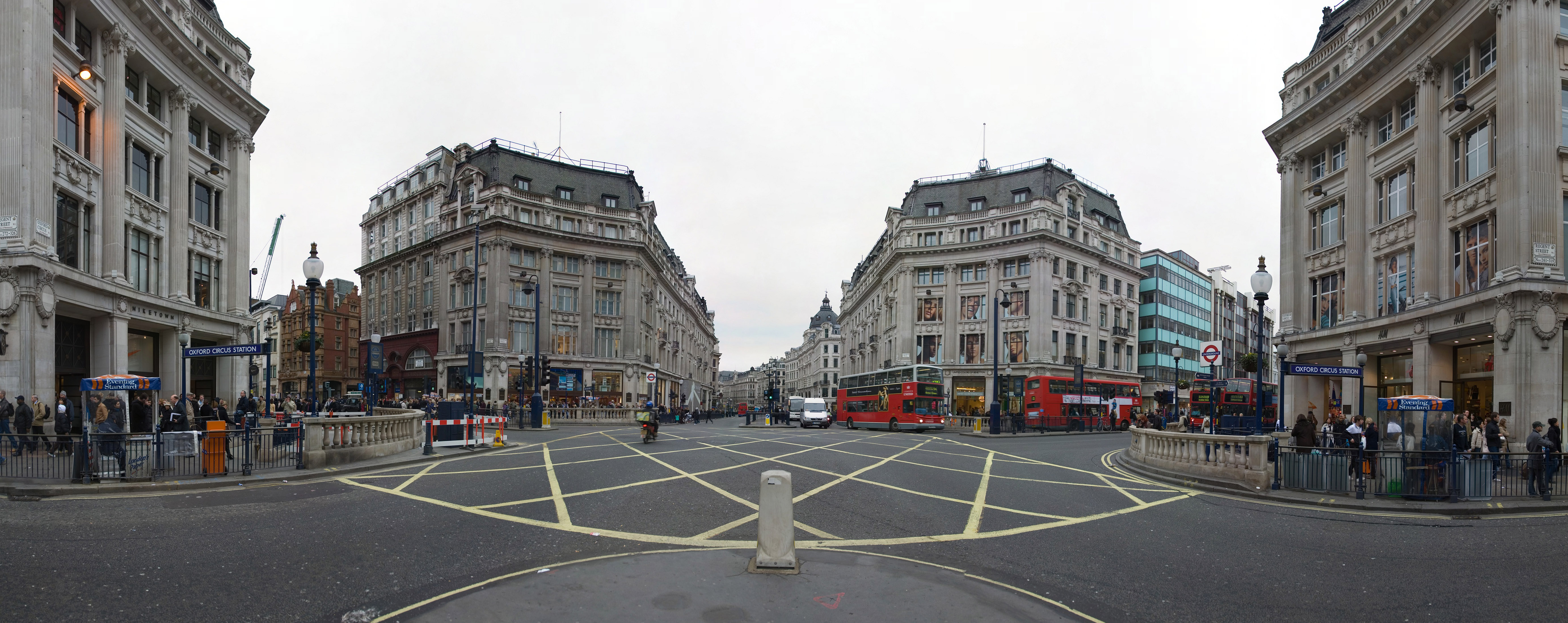 This is a 7 segment panorama taken by myself with a Canon 5D and 24-105mm f/4L lens, looking south on Regent Street at Oxford Circus. It has an approximately 180 degree angle of view.